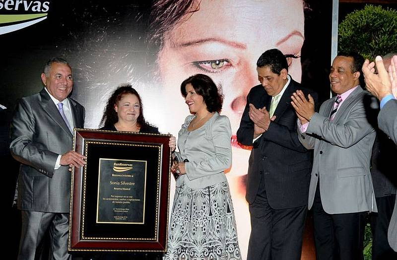 Sonia Silvestre Coleccion Musical Reservas junto a Vicente Bengoa Albizu, Margarita Cedeño de Fernandez, Cesar Pina Toribio, entre otros.